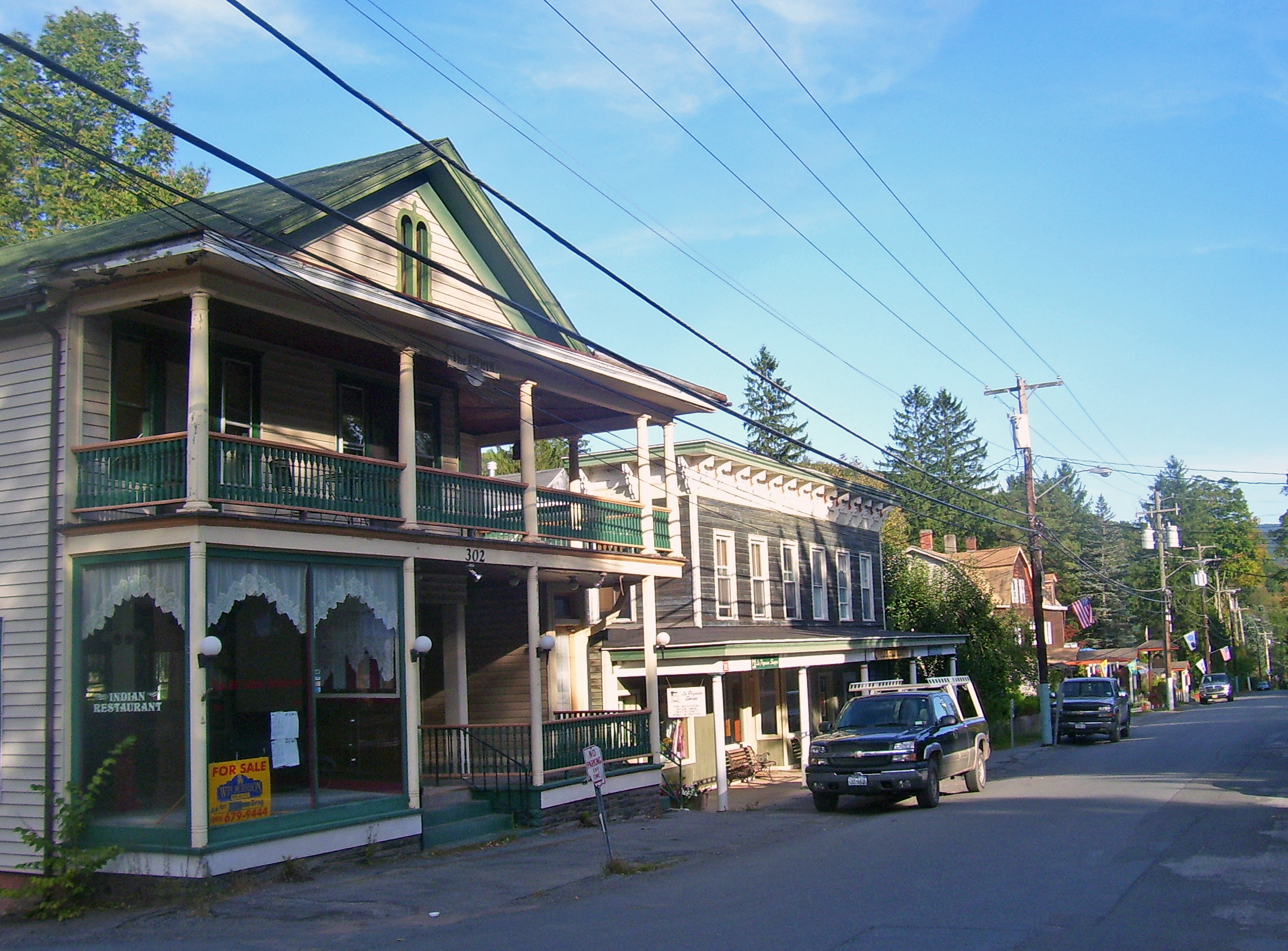 North side of Main Street, Pine Hill, NY, USA